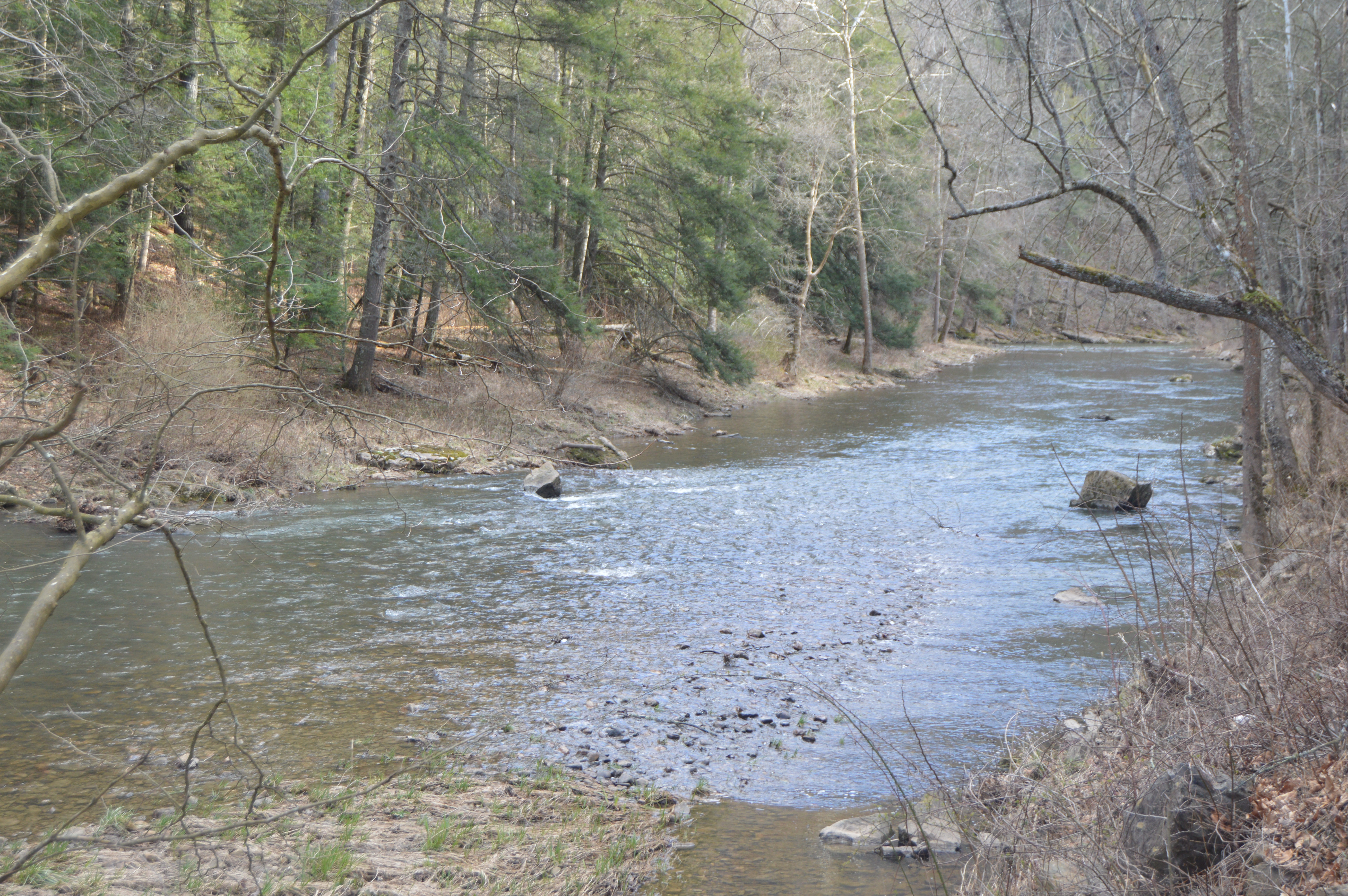 Looking south (downstream) along the Bullpasture River from Bullpasture River Road, north of Williamsville, in far southern Highland County, Virginia, United States.